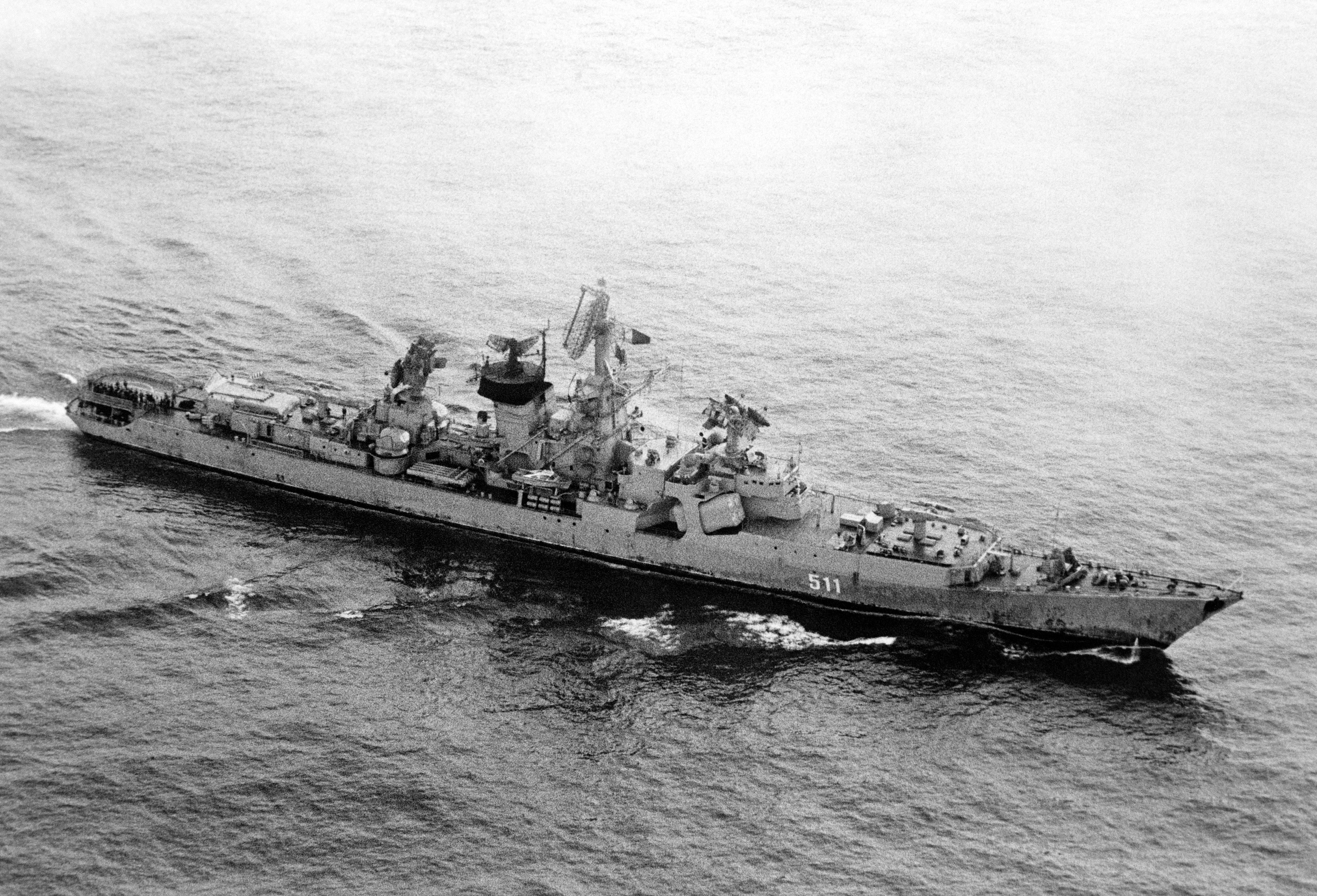 An aerial starboard bow view of the Soviet Kresta II-class guided missile cruiser MARSHAL VOROSHILOV (*typo. VASILIY CHAPAEV) taken from a P-3 Orion patrol aircraft approximately 750 miles west of Midway Island. The cruiser is operating with nine other Soviet ships and is moving in a northeasterly direction. This is the largest Soviet task force to enter Central Pacific waters.